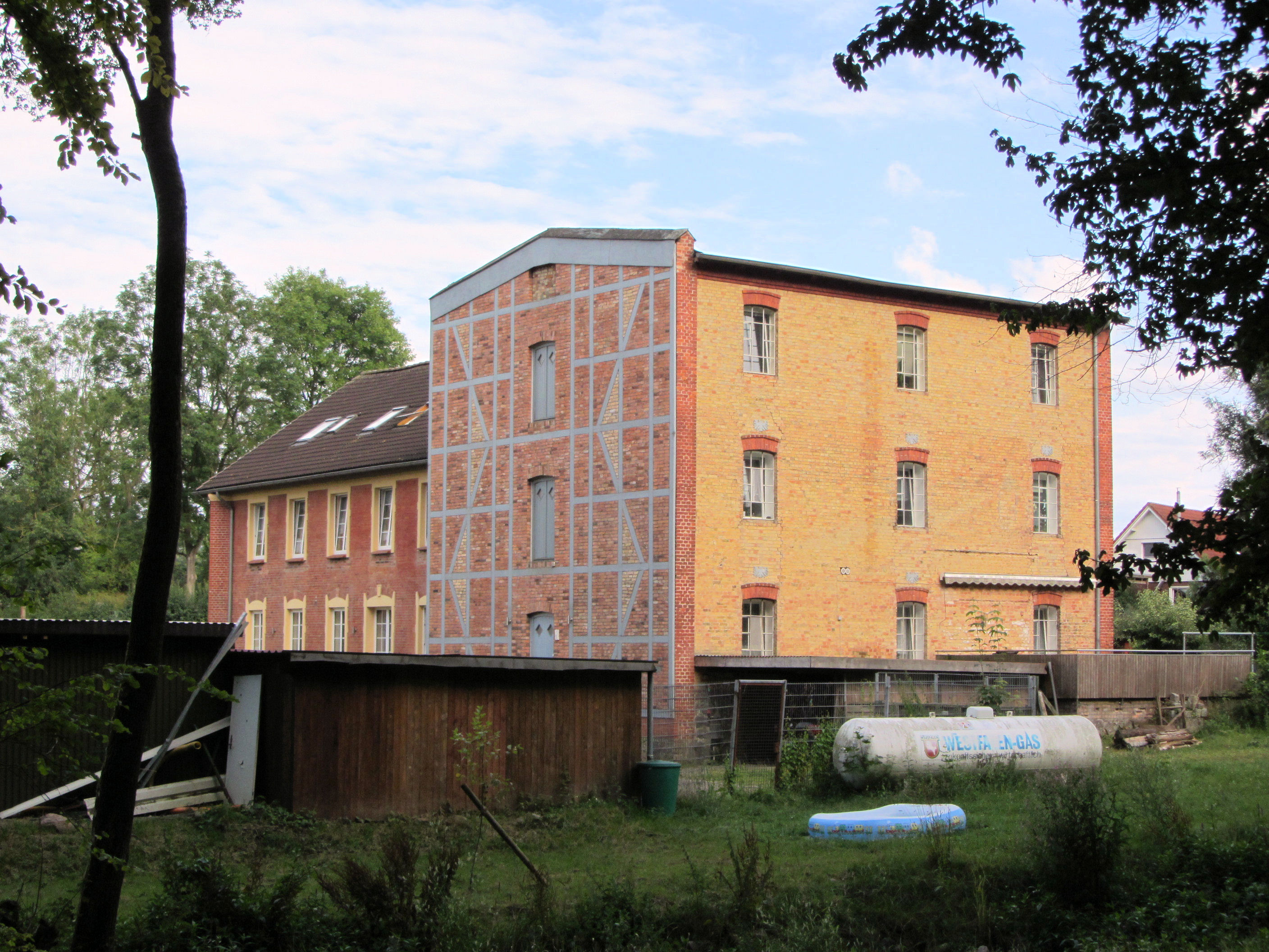 Former water mill in Moidentin, district Nordwestmecklenburg, Mecklenburg-Vorpommern, Germany